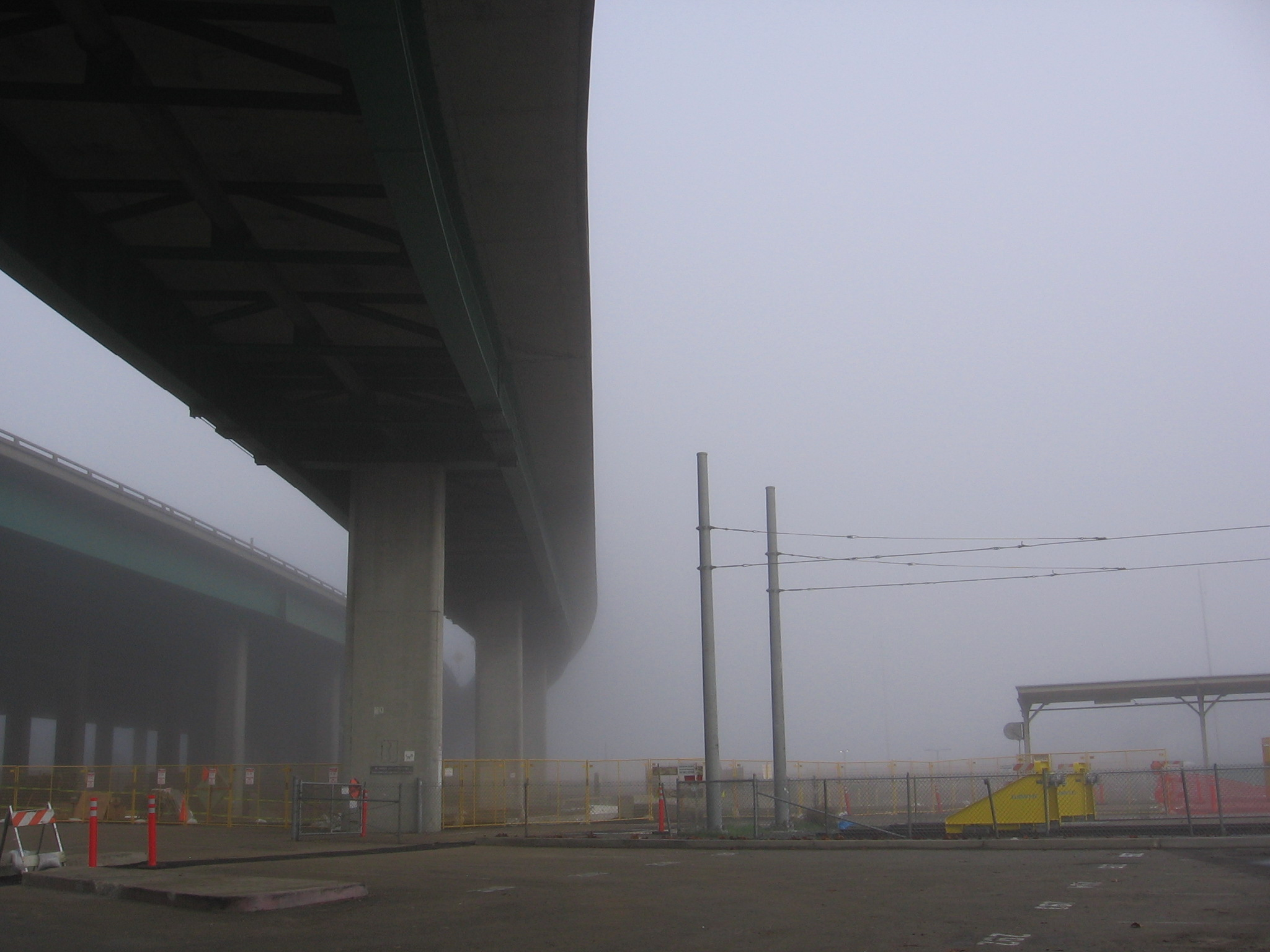 Side view of the terminal of the Gold Line light rail line at the Sacramento Station inter-city, light rail, and bus station in Sacramento, California, USA. The overpass of I-5 appears on the left and the entrance ramp from I Street appears above.